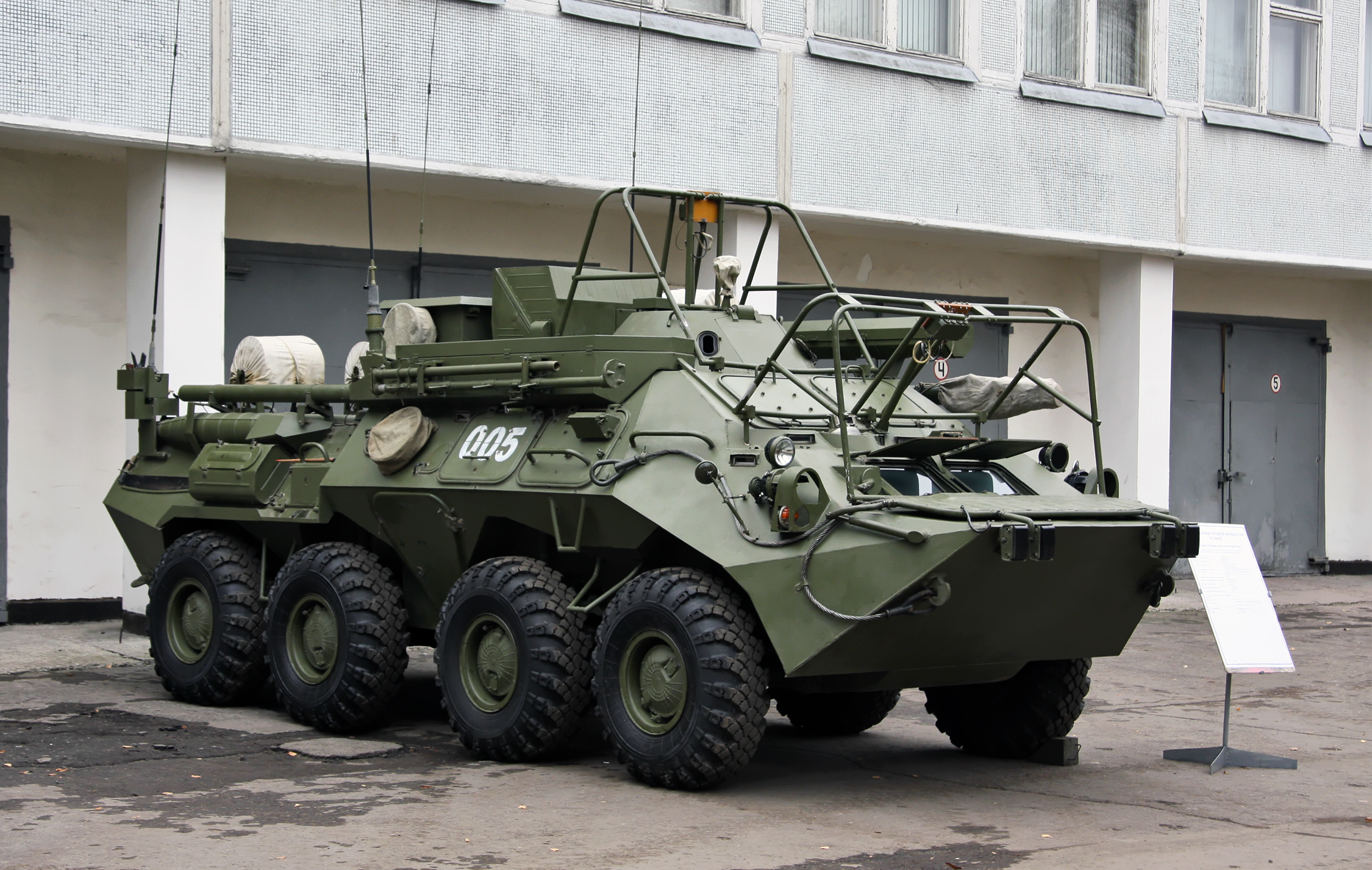 R-166-0,5 radiostation